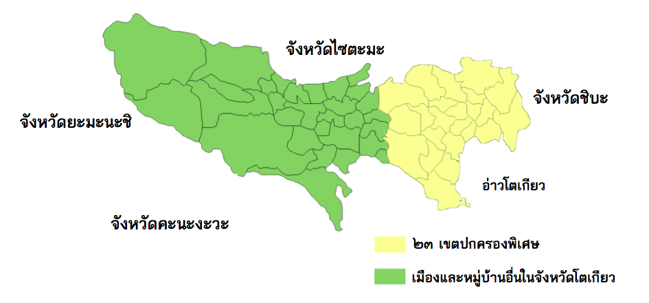 Map of Tokyo in Thai